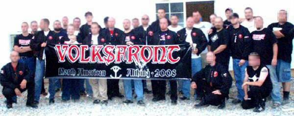 volksfront althing